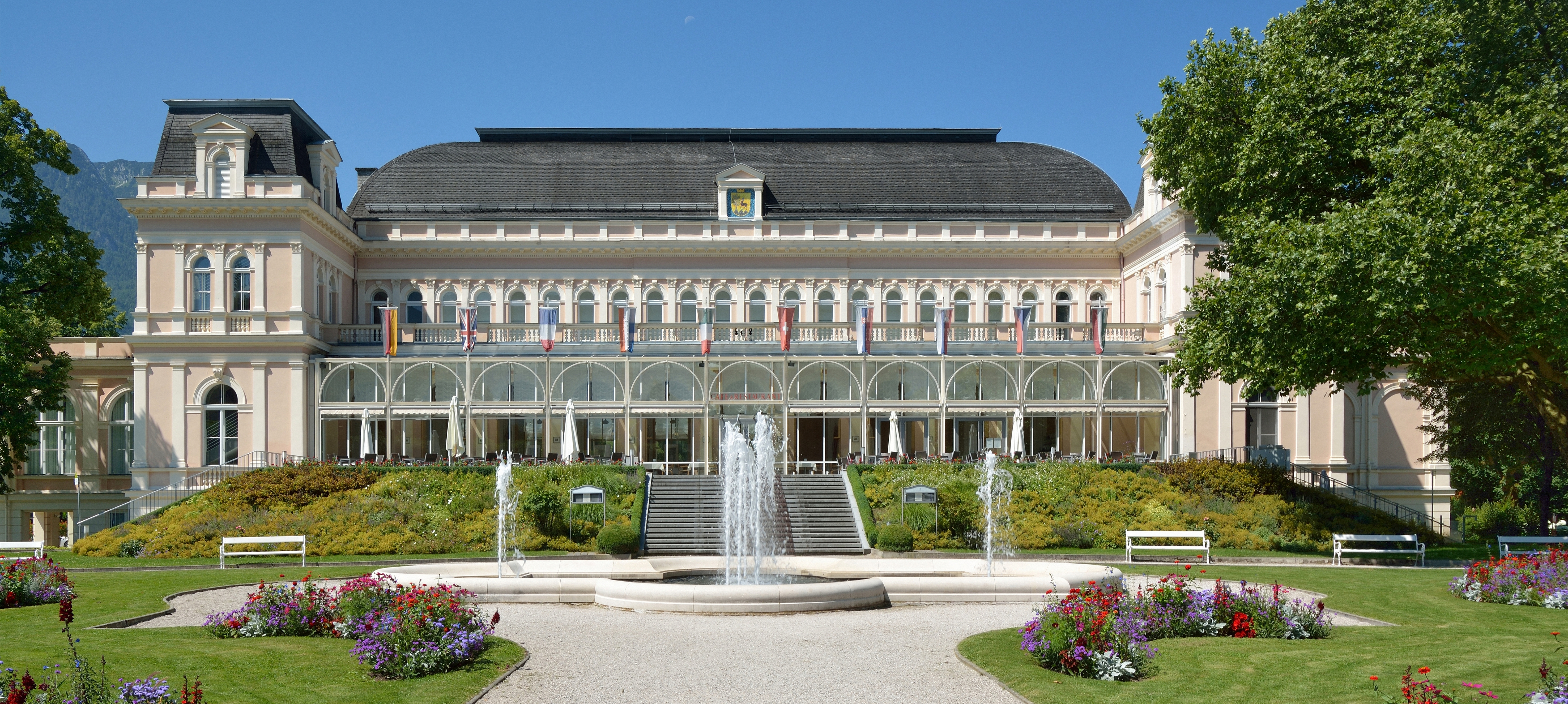 Congress and theater building at Bad Ischl, Upper Austria